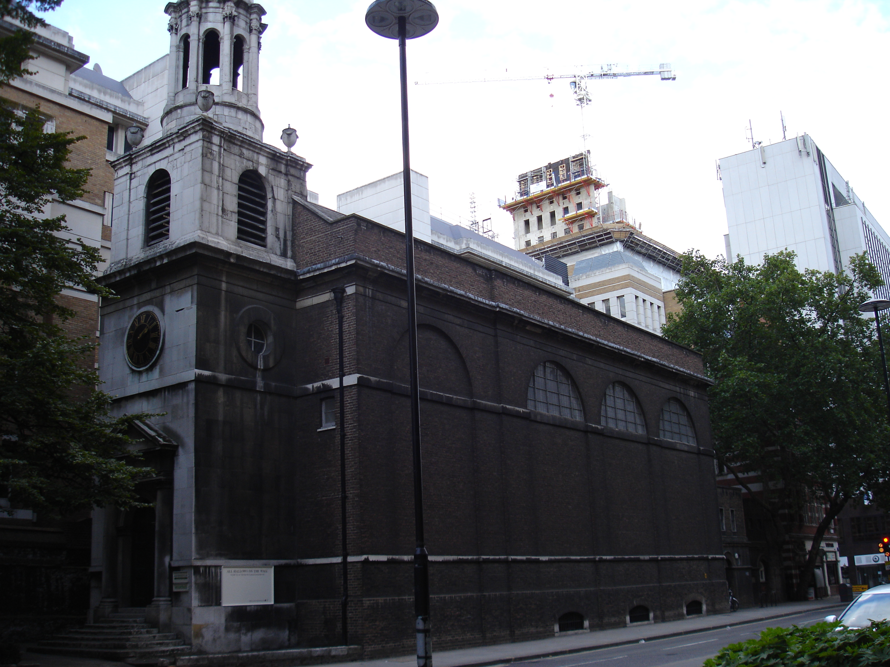 Photograph of the Church of All Hallows on the Wall, London, United Kingdom